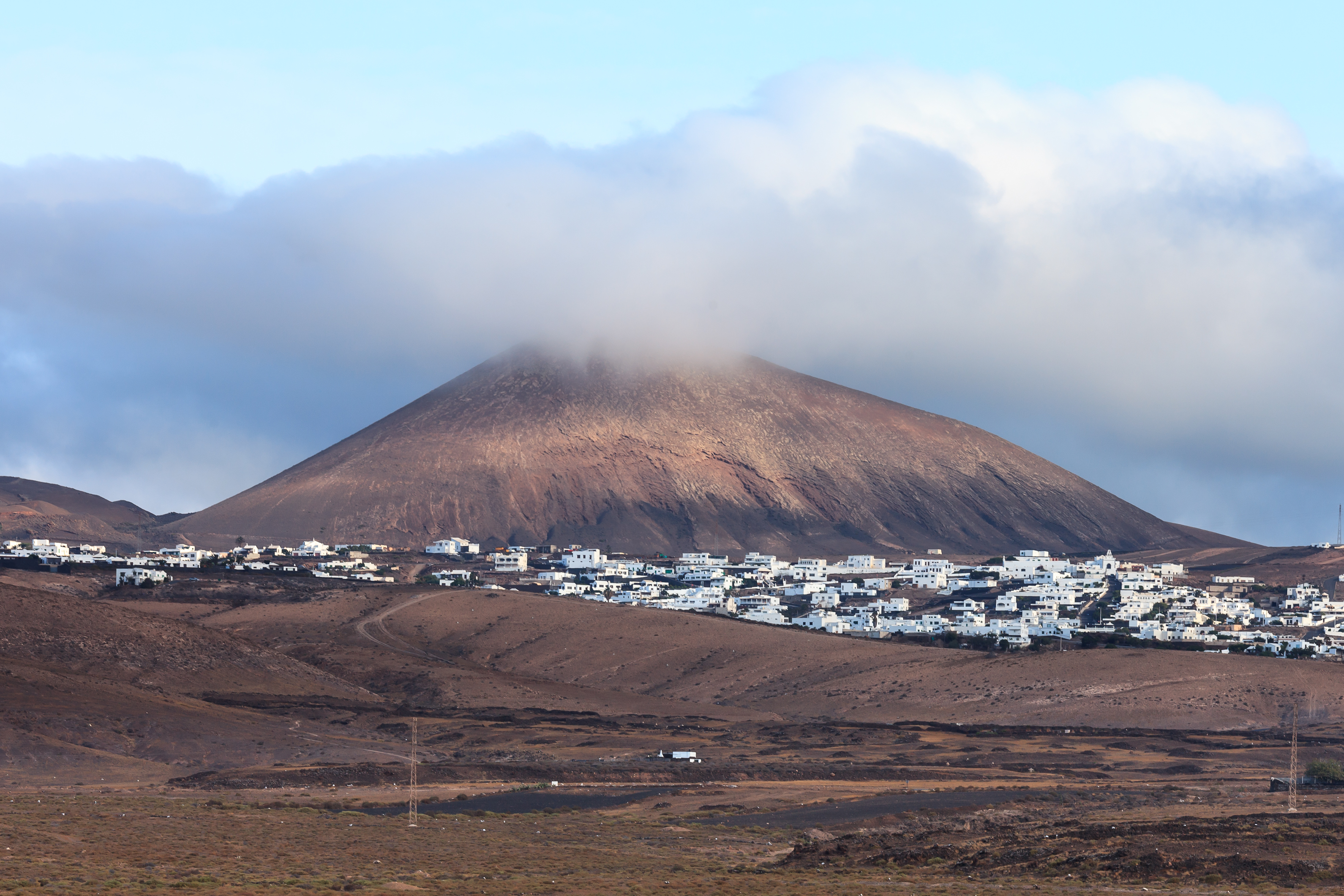 Tías from Matagorda, Lanzarote, Spain